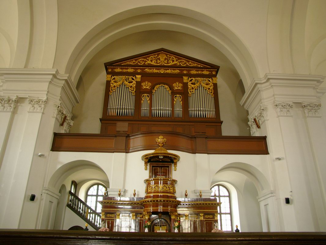 Organ inside of the Calvinistic Great Church of Debrecen